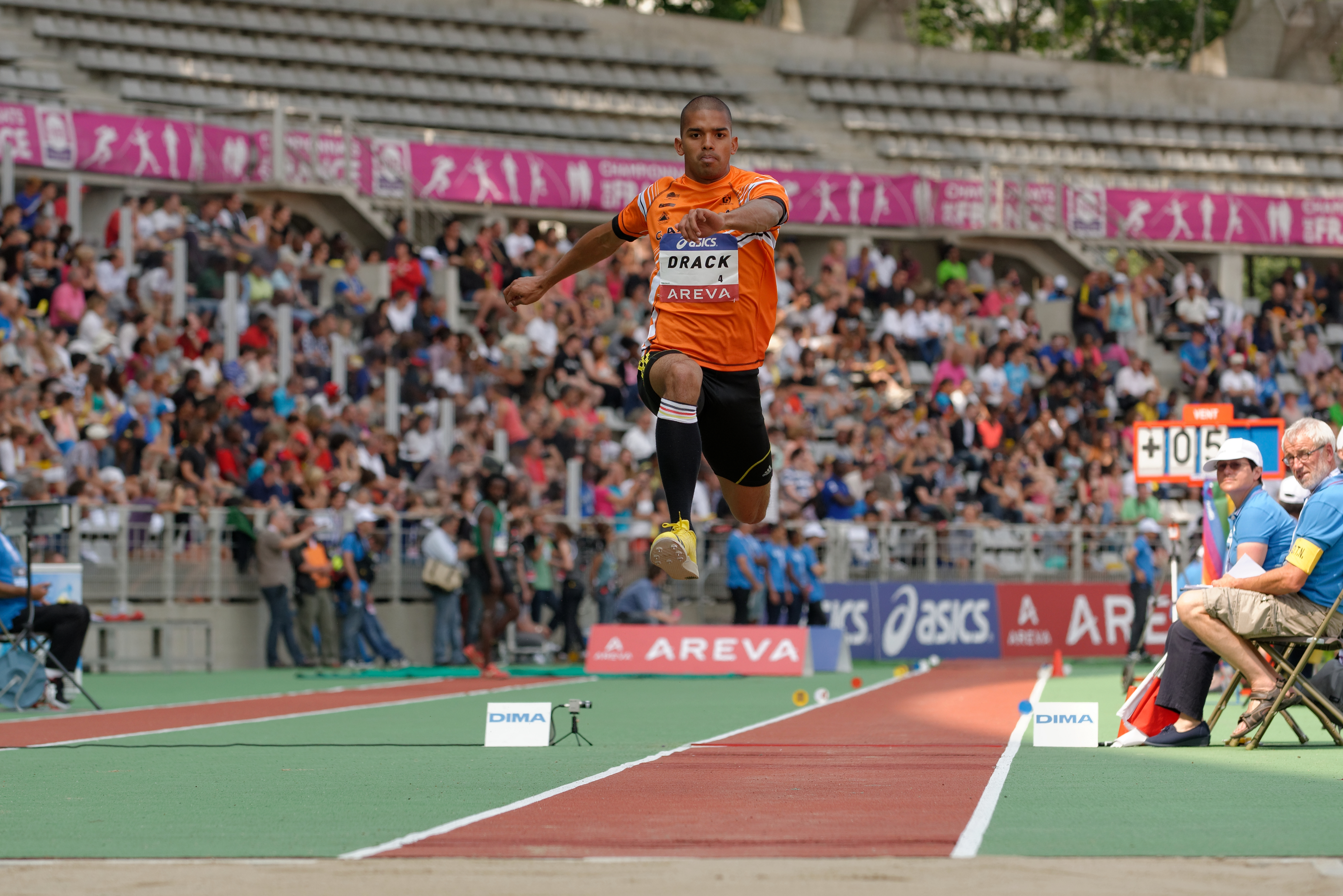 Jonathan Drack competes in the men's triple jump final during the French Athletics Championships 2013 at Stade Charléty in Paris, 13 July 2013.